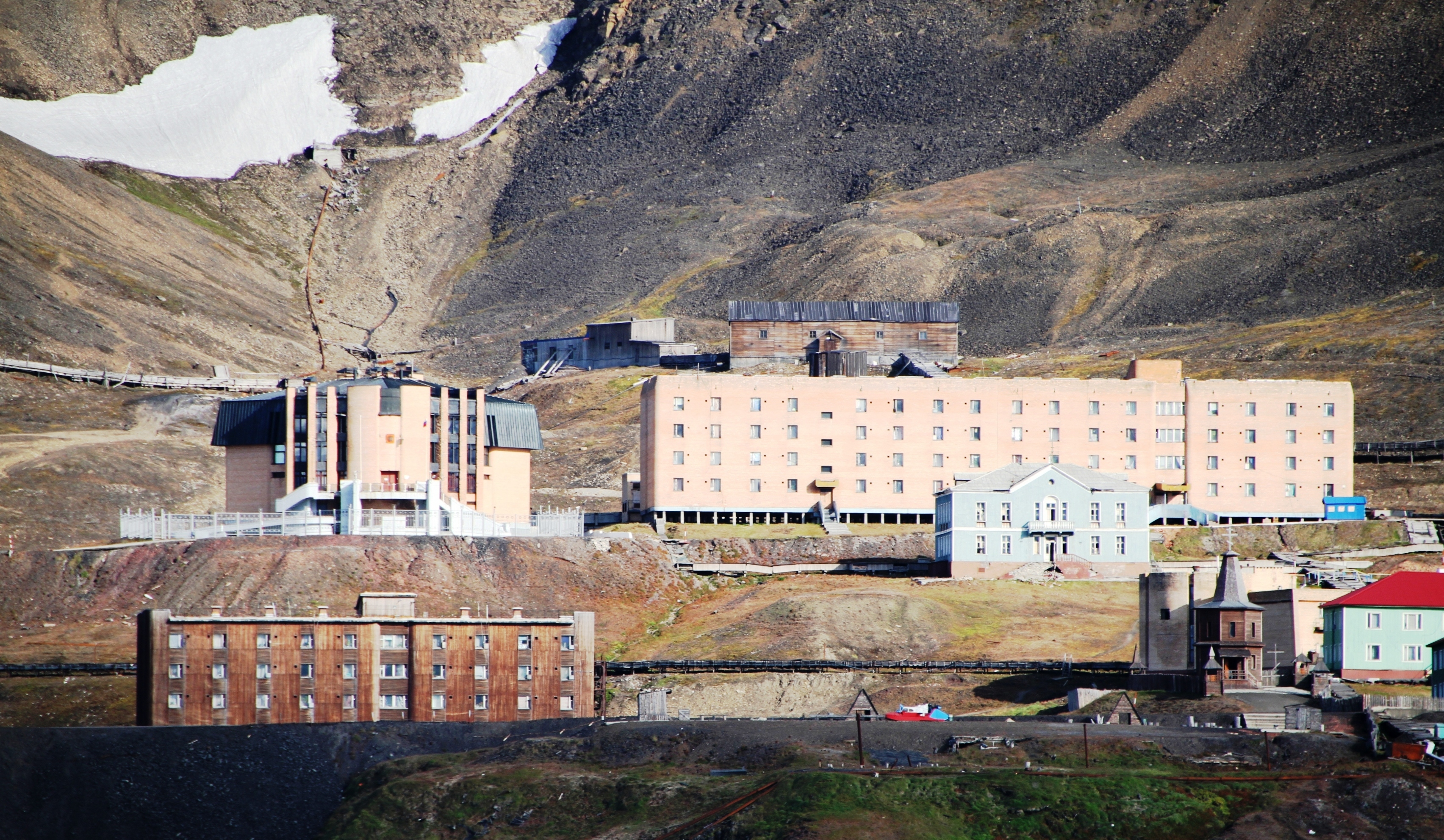 Image of Barentsburg, the western (Russian) settlement of the Isfjorden bay, Spitsbergen, Svalbard. This image shows the General Consulate and main workers' quarter. Behind is the valley with old infrastructure, including a dam which is Norwegian Cultural Heritage Site number 99920.